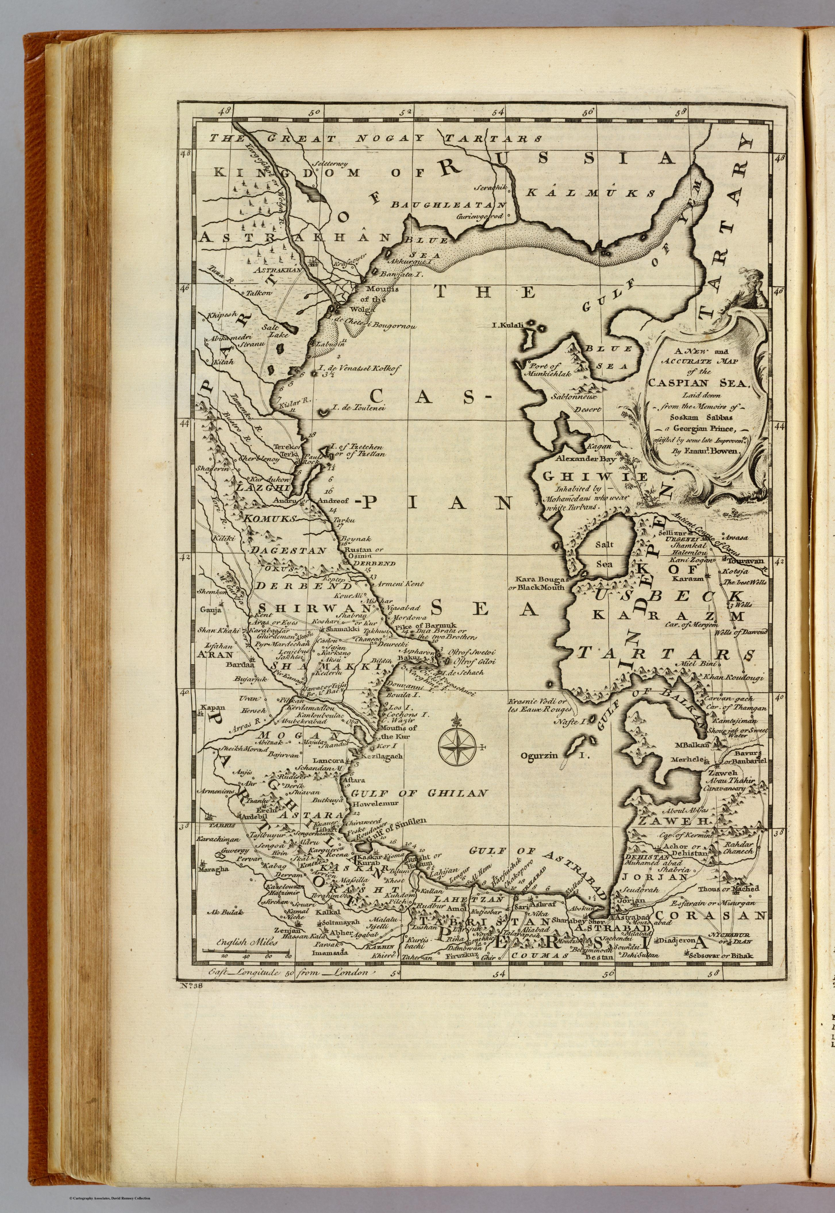 A new and accurate map of the Caspian Sea, laid down from the memoirs of Soskam Sabbus, a Georgian Prince, assisted by some late improvemets. By Emanl. Bowen. (London: Printed for William Innys, Richard Ware, Aaron Ward, J. and P. Knapton, John Clarke, T. Longman and T. Shewell, Thomas Osborne, Henry Whitridge ... M.DCC.XLVII)